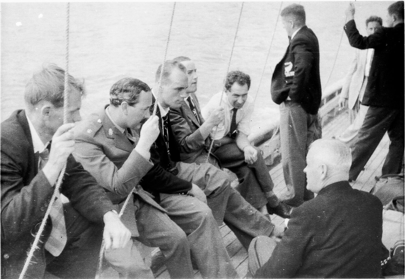 1904 New Zealand All Blacks, in formal dress, yachting